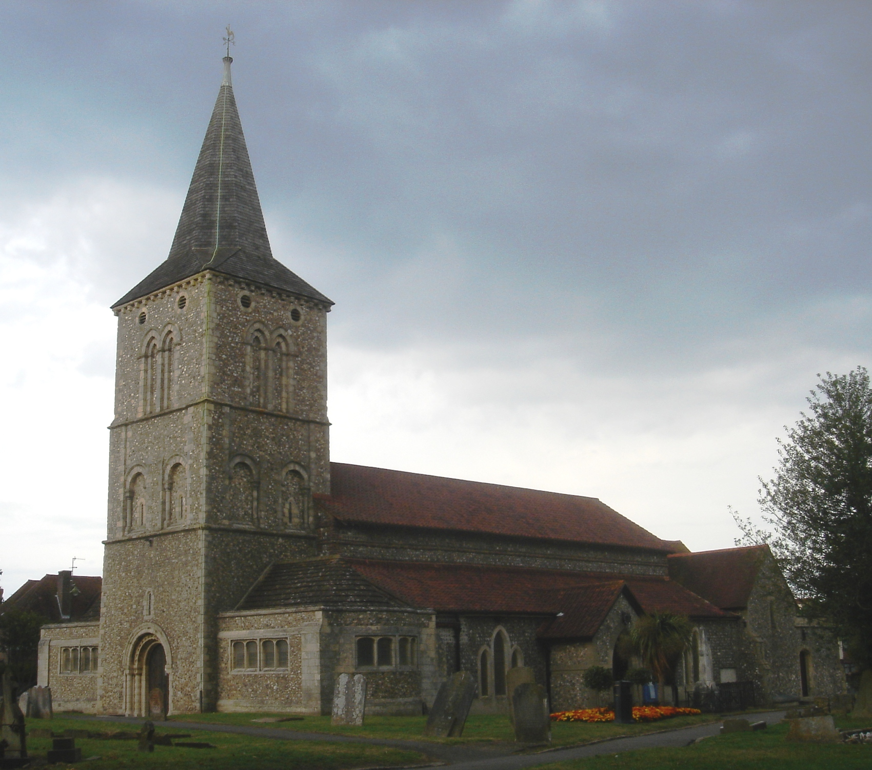 St Michael and All Angels Church, Church Lane, Southwick, Adur District, West Sussex, England. A restored 12th- and 13th-century Anglican church; the parish church of Southwick. listed at Grade II* by English Heritage (IoE Code 297346)